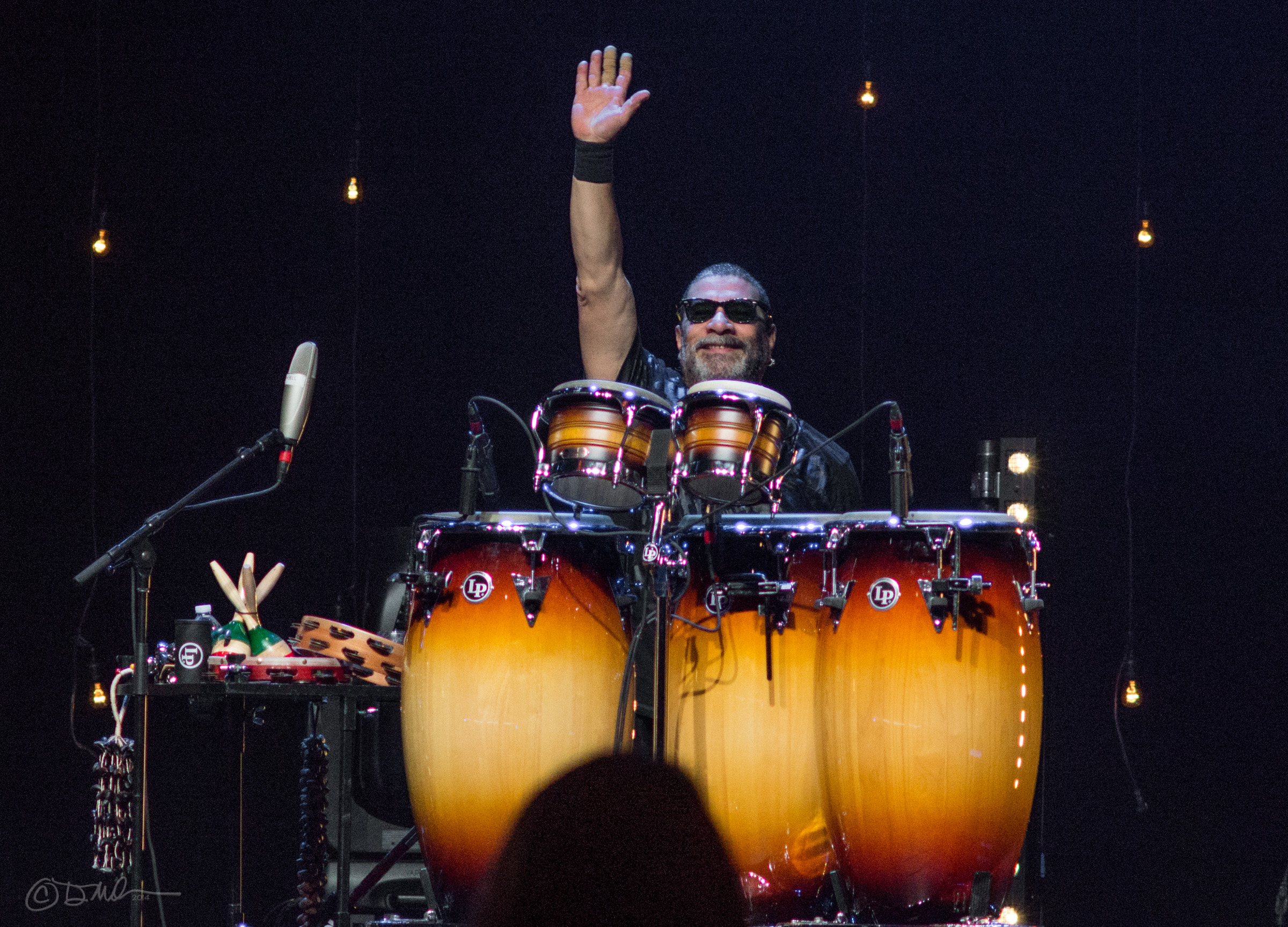 Lenny Castro Radio City Music Hall with Joe Bonamassa Jan 2015